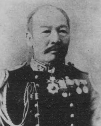 Depicted person: Yoshijima Tokiyasu – Imperial Japanese admiral